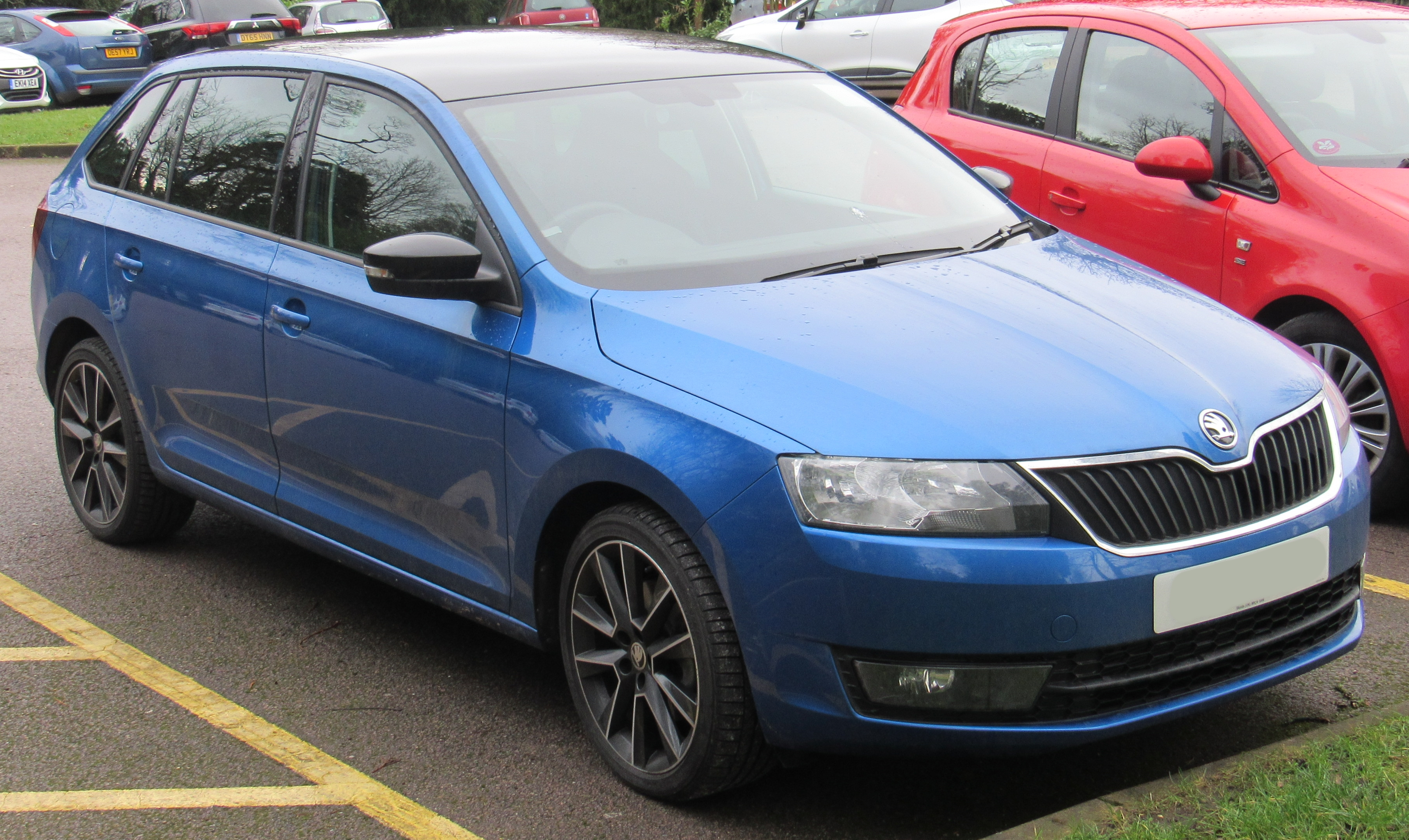 2017 Skoda Rapid Spaceback SE Sport 1.2 Front Taken in Warwick